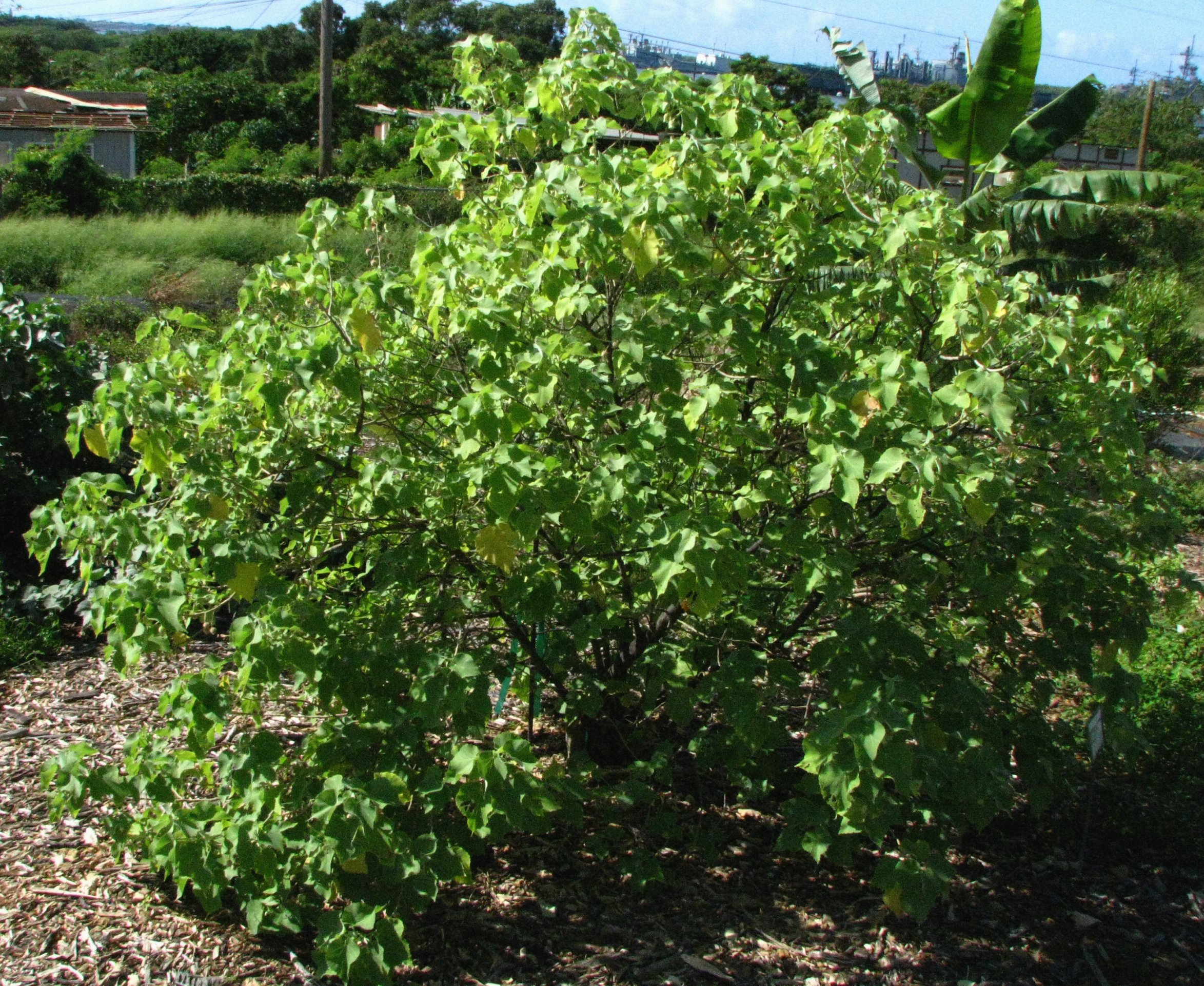 Hidden-petaled abutilon Malvaceae Endemic to the Hawaiian Islands (Lānaʻi only) Endangered Oʻahu (Cultivated)